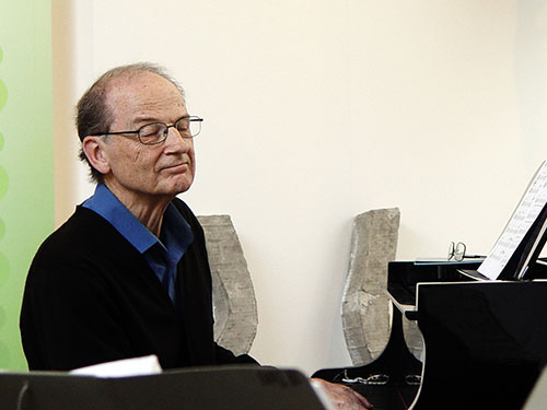 Ole Kock Hansen at Aarhus Jazz Festival 2015